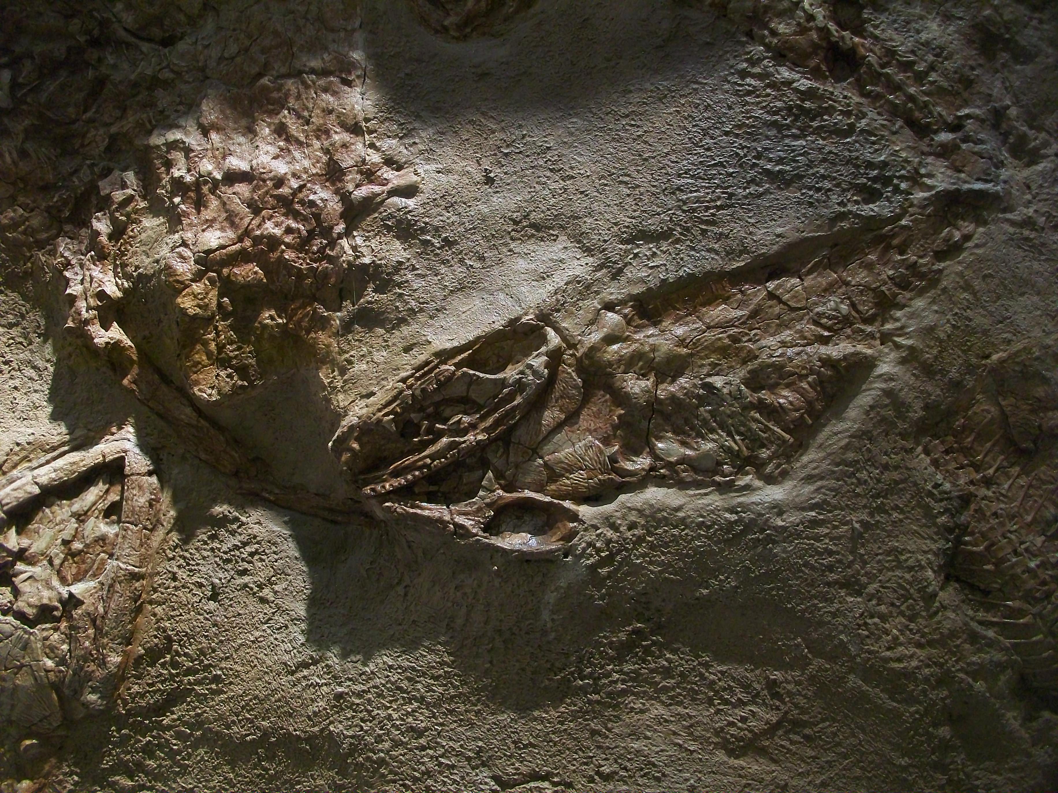 Ventral view of several skeletons of Trimerorhachis insignis within a Trimerorhachis assemblage (specimen AMNH 4569) in the American Museum of Natural History.